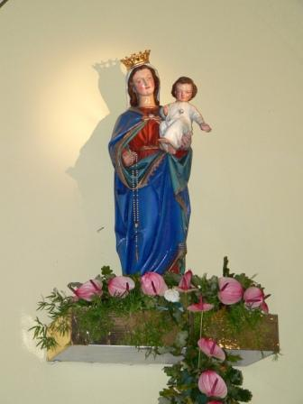 Statue of Saint Mary from Poland